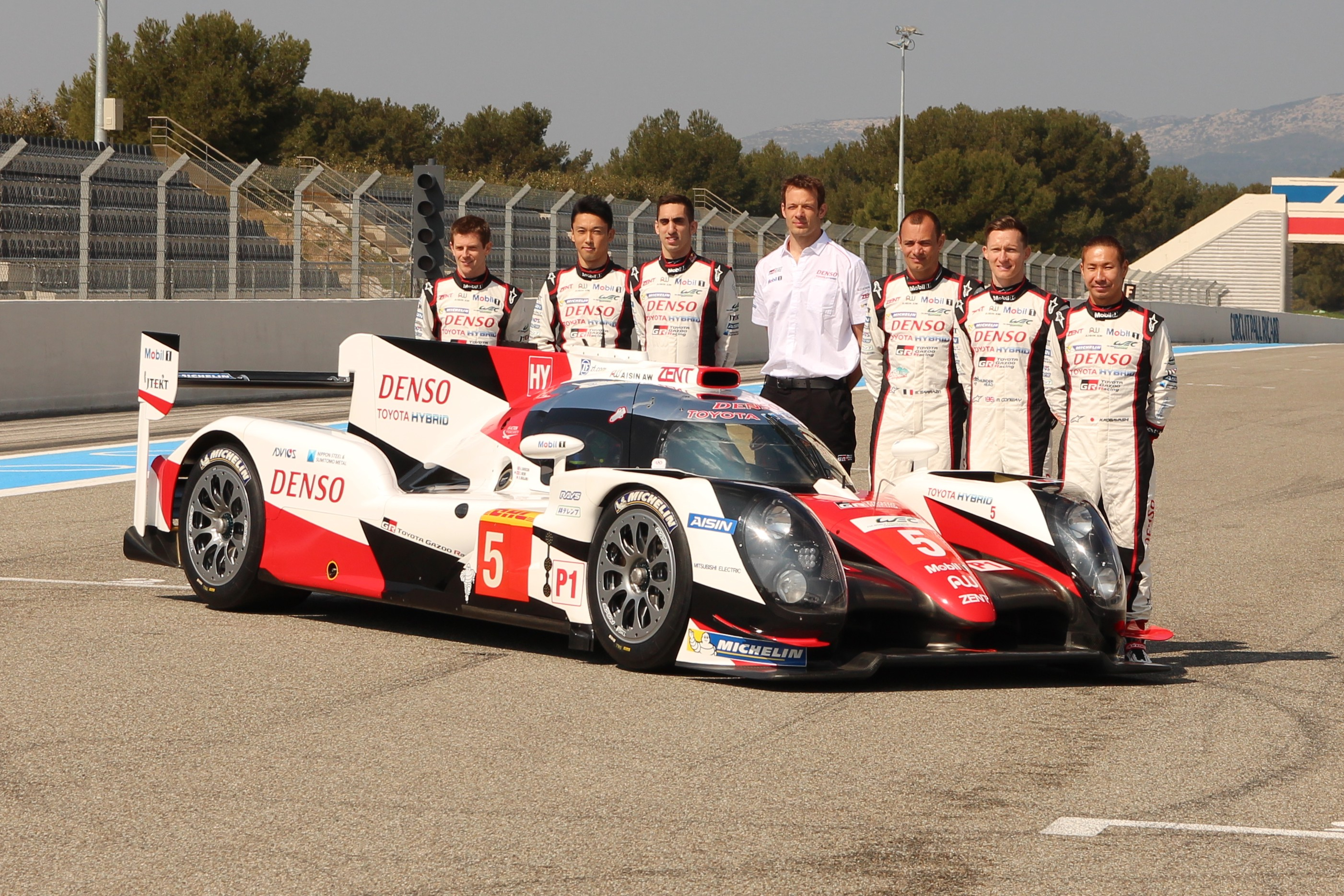 Toyota TS050 Hybrid unveiled at Circuit Paul Ricard, Le Castellet, France on 24 March 2016